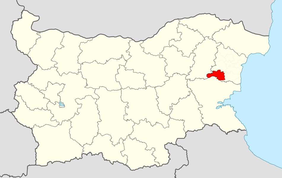 Location map of Dalgopol Municipality within Varna Province, Bulgaria. Equirectangular projection, N/S stretching 130 %. Geographic limits of the map: N: 44.4° N S: 41.1° N W: 22.1° E E: 28.9° E